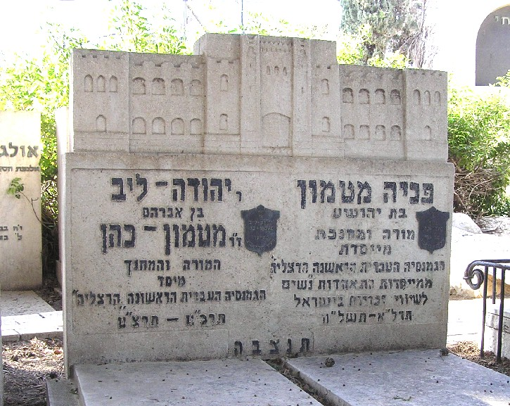 Tomb of Yehuda Leib and Fania Matmon Cohen (Hebrew educators, founders of Gimnasia Herzlia) in Trumpeldor cemetery in Tel Aviv photographed by Eman, February 2006